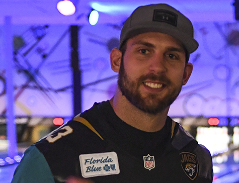 MAYPORT, Fla. (Nov. 6, 2017) Players and cheerleaders from the Jacksonville Jaguars visit with Sailors and families during the NFL's "Salute to Service" at the Naval Station Mayport bowling alley. The league's annual military appreciation efforts culminate in November with special events honoring veterans, active duty service members and their families. (U.S. Navy photo by Mass Communication Specialist 2nd Class Timothy Schumaker/Released)